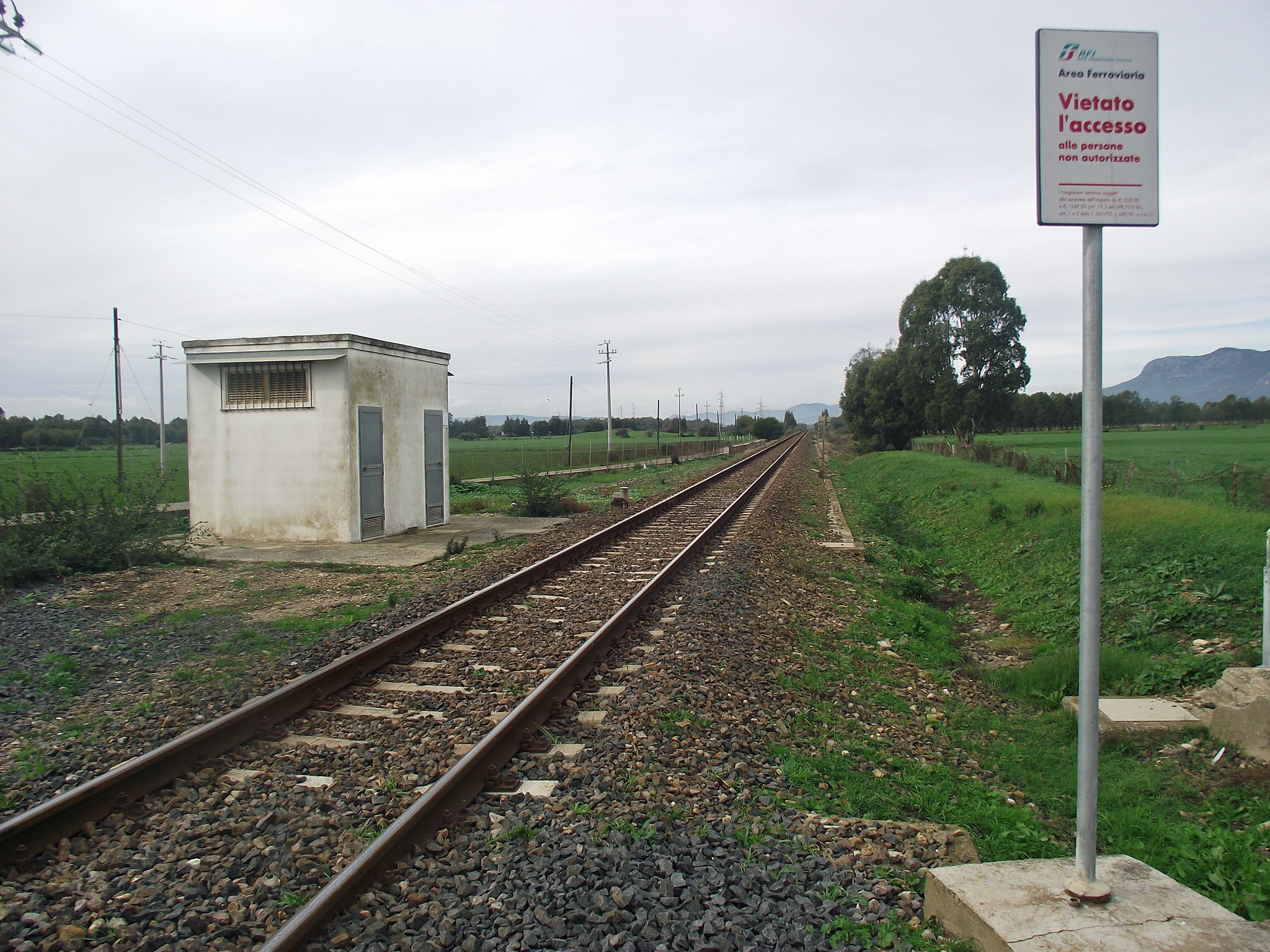 The track of the Decimomannu-Iglesias railway exiting the former Musei station (Sardinia, Italy) heading to Villamassargia